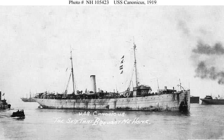 United States Navy minelayer USS Canonicus (ID-1696) in British in port in 1919 during her post-World War I service as a troop transport